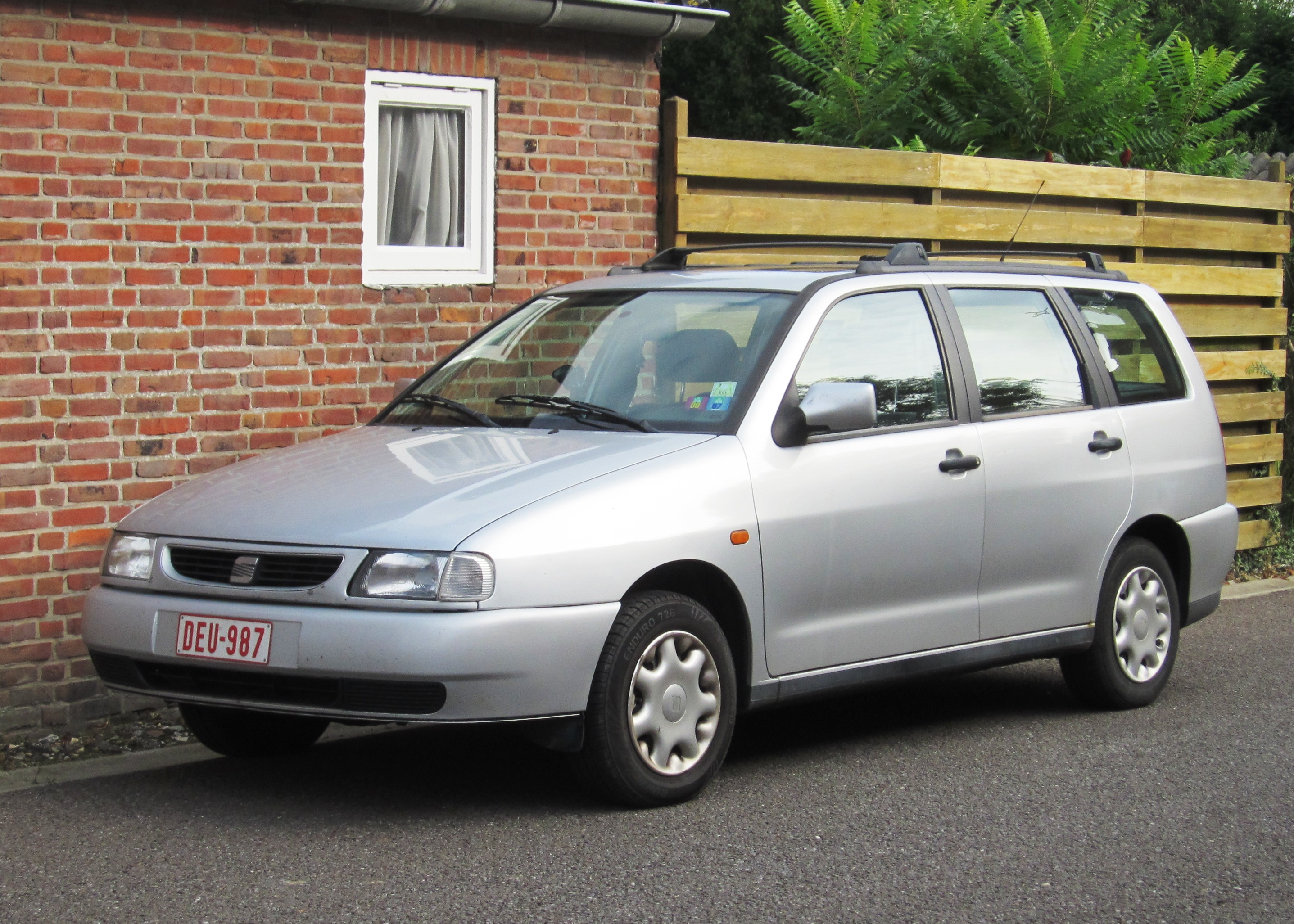 SEAT Córdoba 6K Vario (ca 1997)